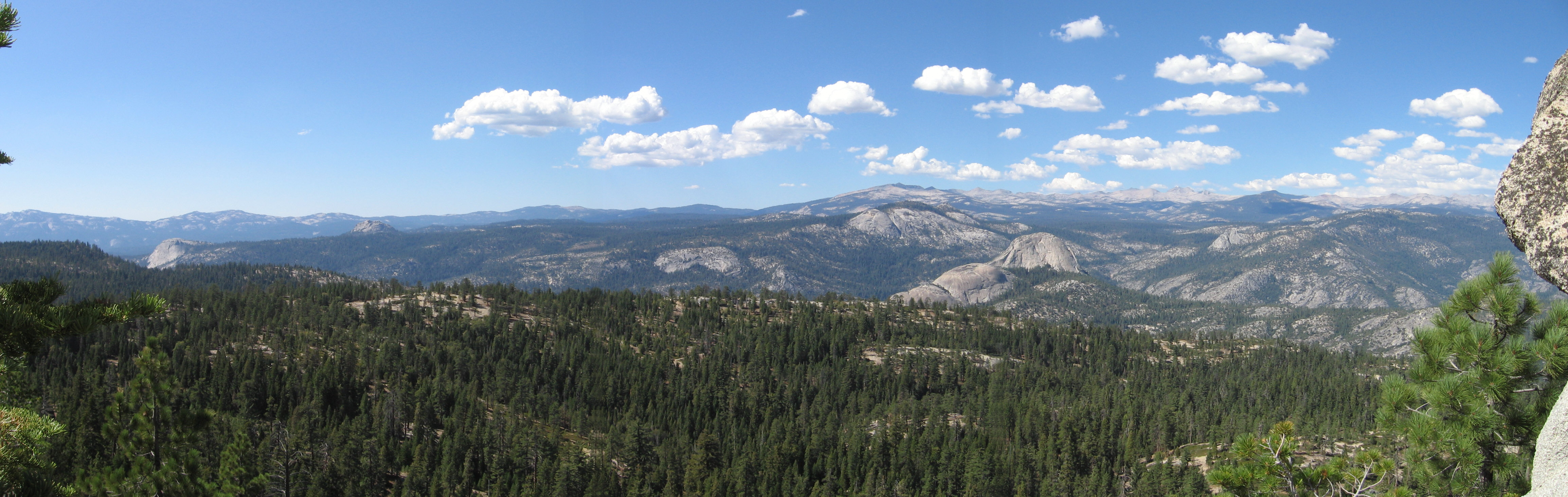 View of Ansel Adams Wilderness from Sierra National Forest